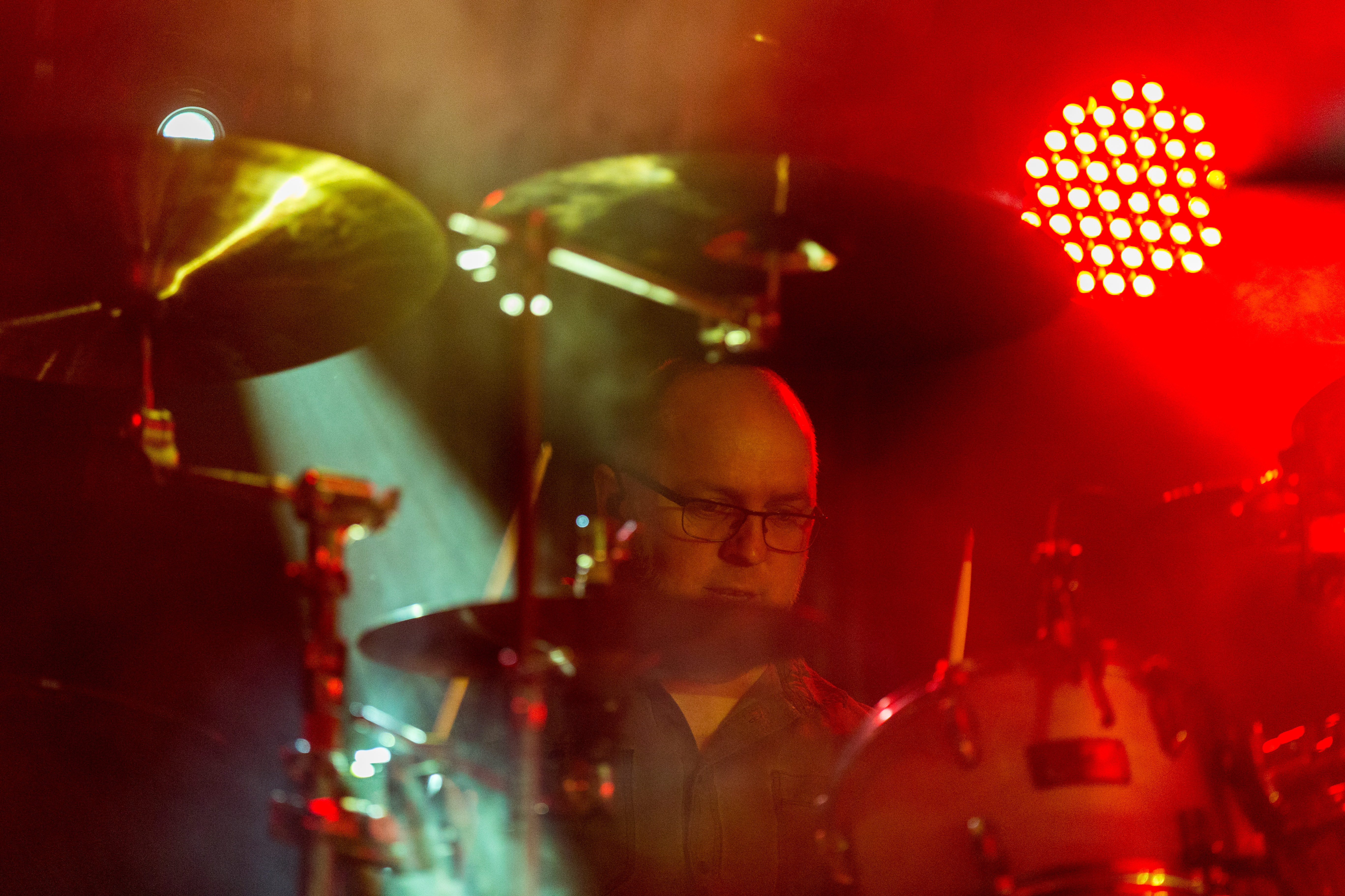 The German pagan metal band Wolfchant at the Dark Troll Open Air 2017 in Bornstedt/Germany.